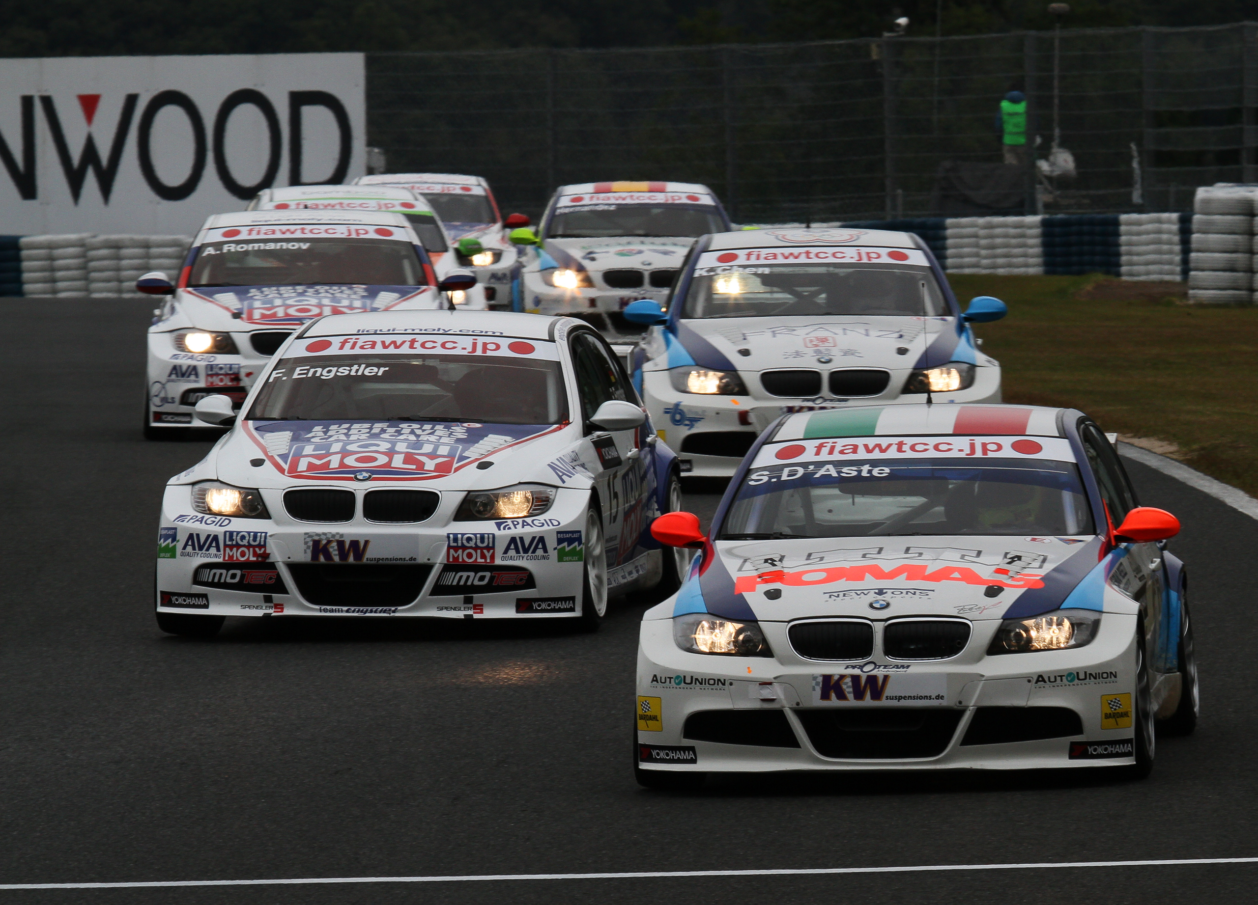 World Touring Car Championship 2010 Race of Japan: Independents BMWs; Stefano D'Aste (Proteam), Franz Engstler (Liqui Moly Team Engstler), Kevin Chen (Proteam), Andrei Romanov (Liqui Moly Team Engstler), and others, during the 1st free practice session on Saturday.